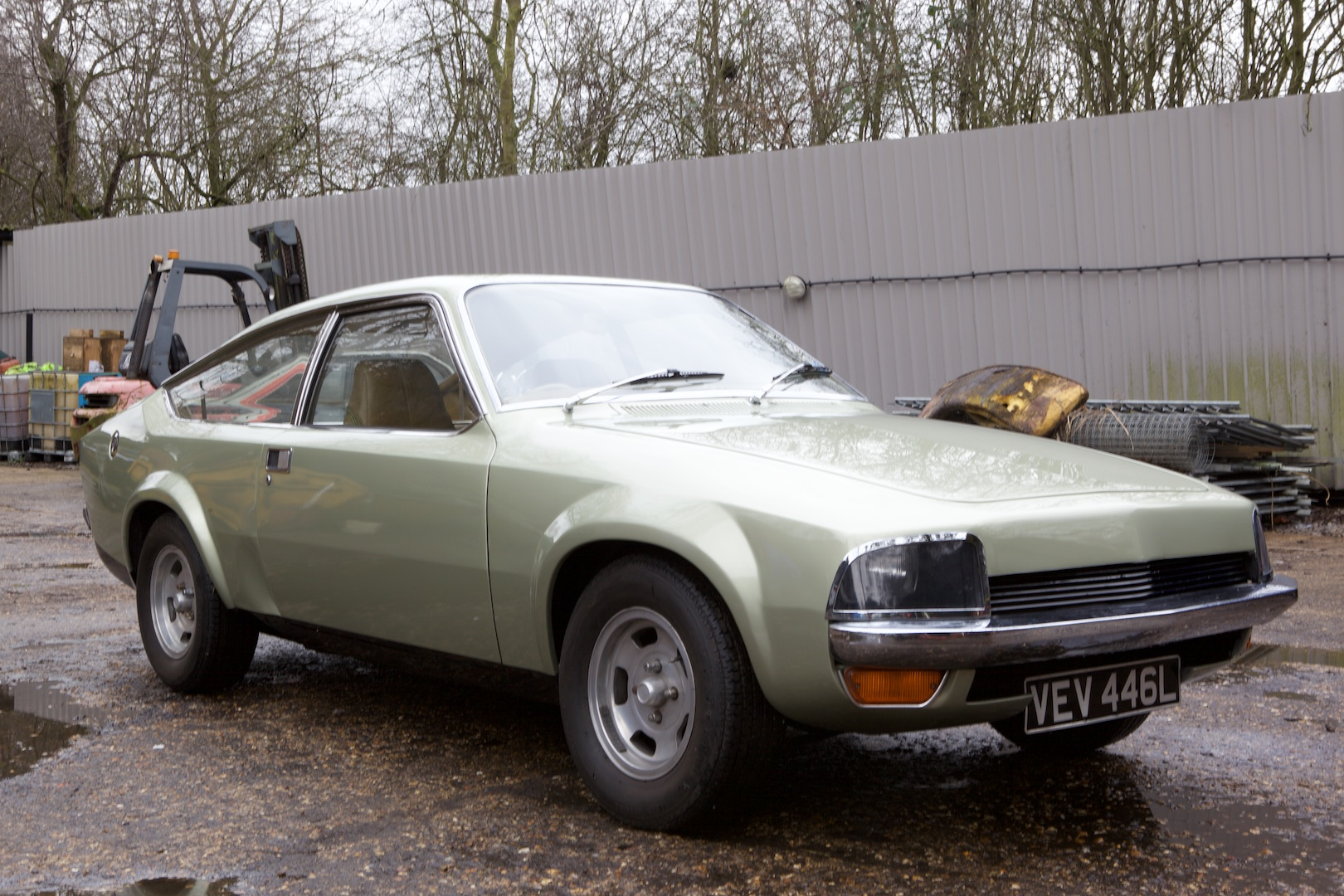 Ford Cirrus, Daily Telegraph Magazine competition car, built by Woodall Nicholson Ltd and Triplex Safety Glass Ltd. Designed by Michael Moore.